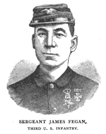 An illustration of American sergeant James Fegan from the 1886 book Uncle Sam's Medal of Honor.